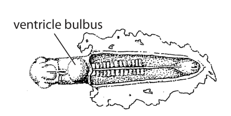 Standard Event System character depiction